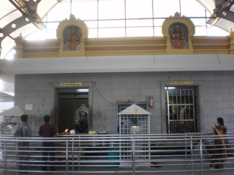 The Shiva's temple